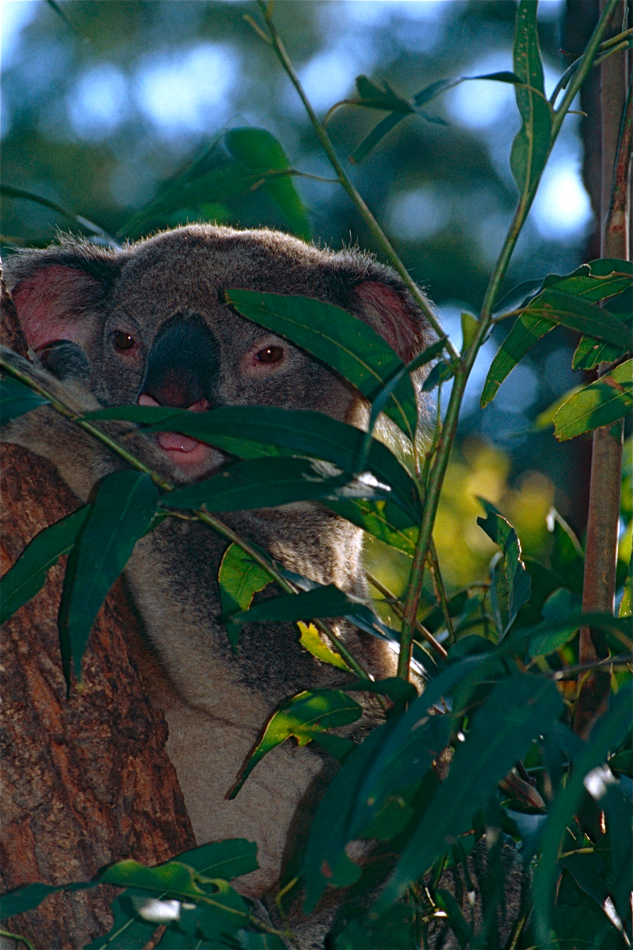 David Fleay Wildlife Park, Burleigh Heads, Gold Coast, South Queensland, AUSTRALIA Scanned Slide from Dec 2000